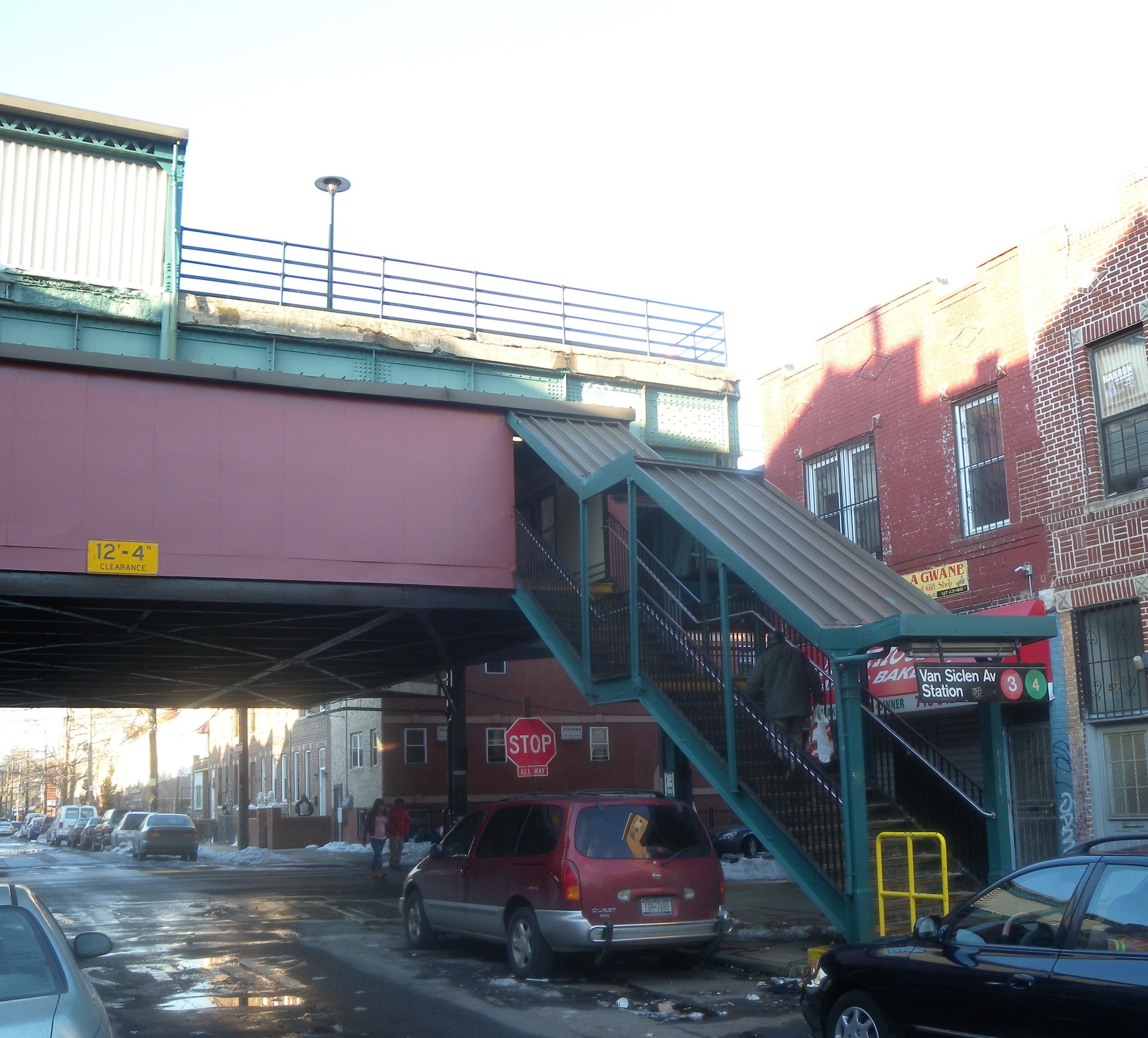 Looking north at Van Siclen station on a sunny afternoon.